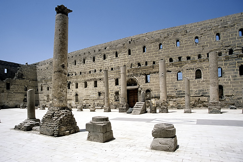 Court, view to the north, White Monastery, governorate of Sohag, Egypt